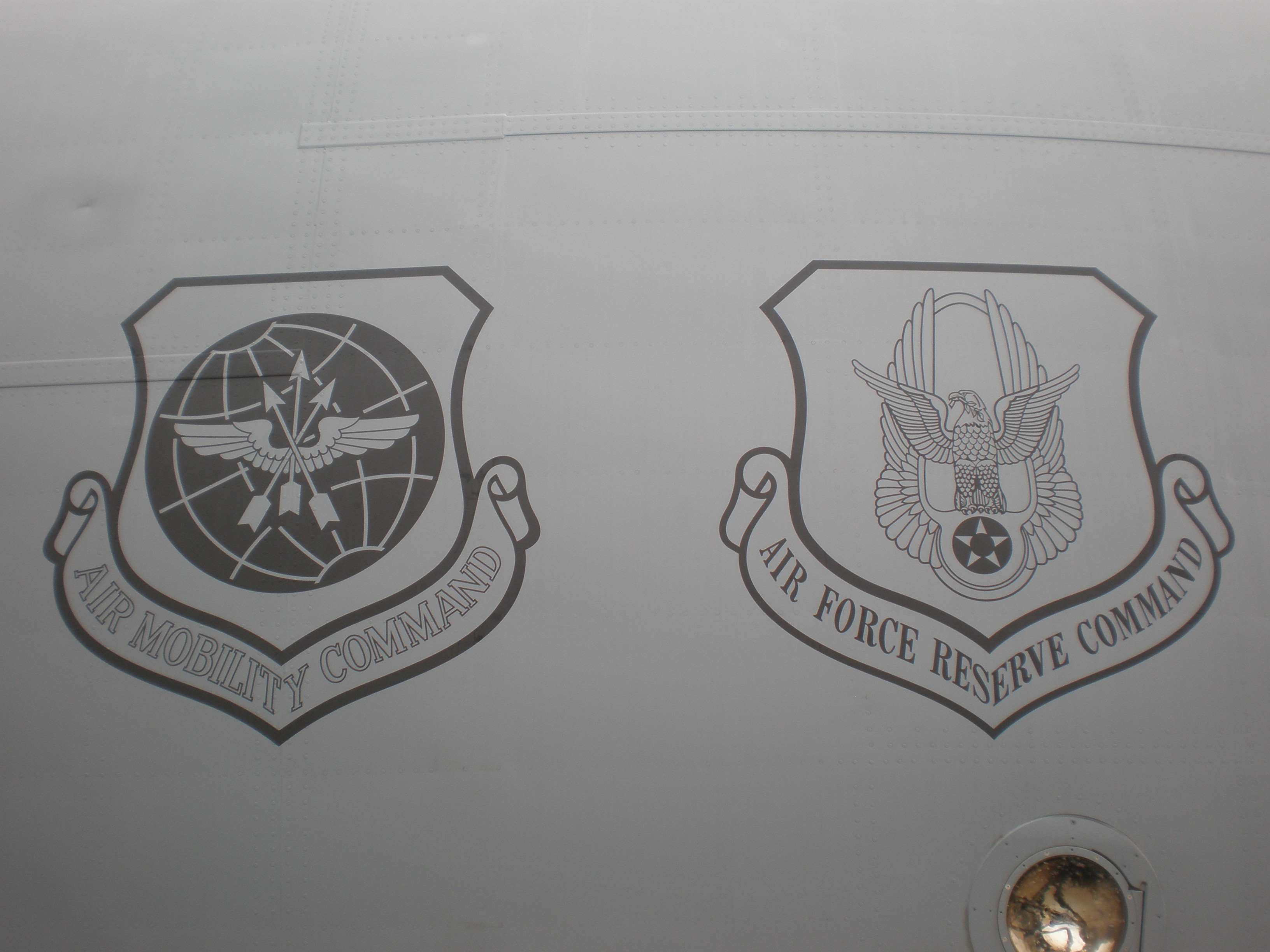 Unit shields painted on the port fuselage of C-17 Globemaster III no. 5139 of the 452d Air Mobility Wing based at March Joint Air Reserve Base in Riverside County, California in the down position. Seen at the Wings over Wine Country 2008 air show at the Charles M. Schulz - Sonoma County Airport in Sonoma County, California.